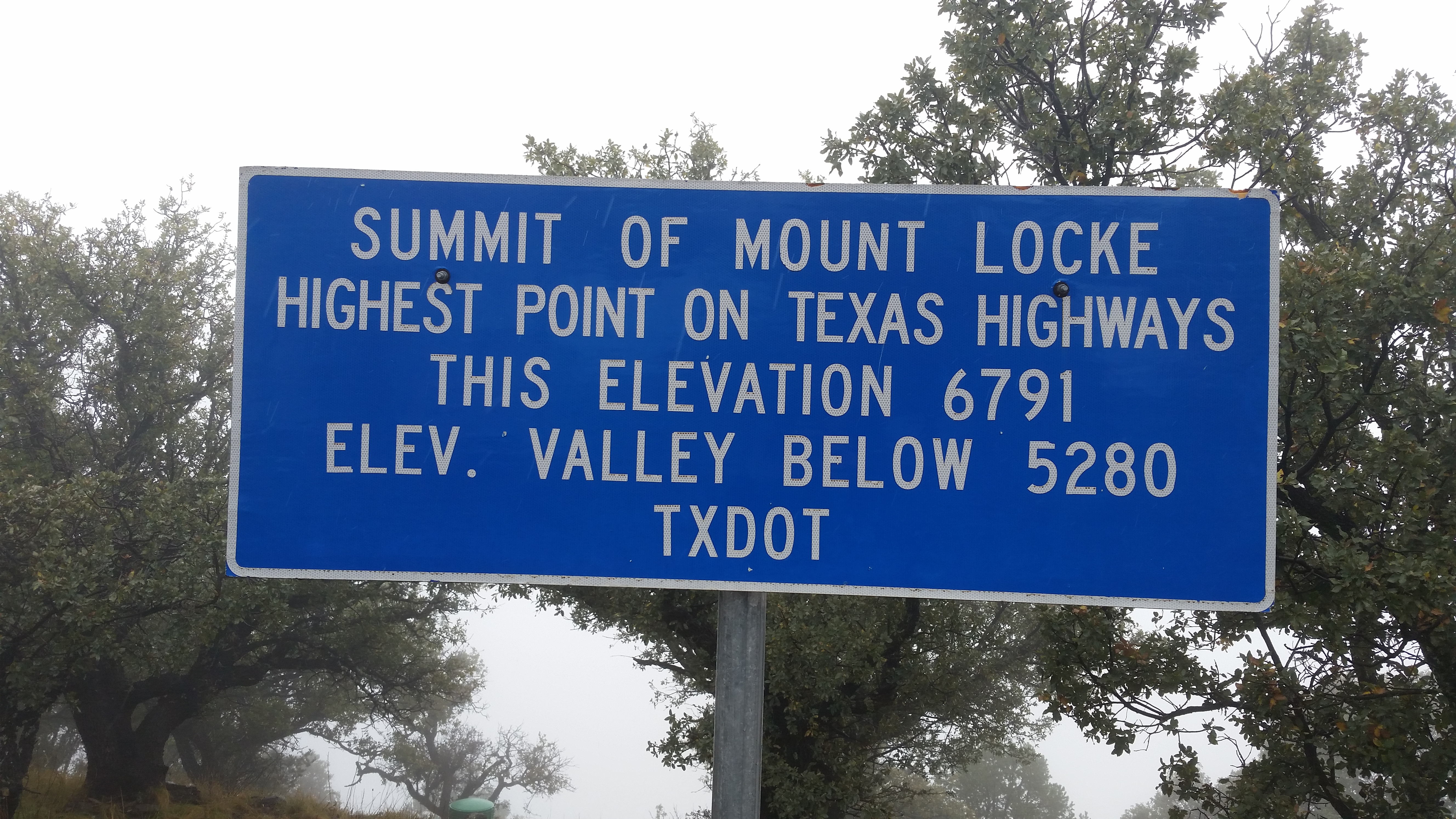 Mount Locke Texas Highways